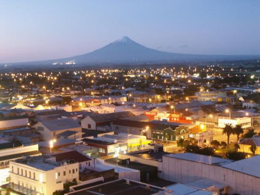 Hawera CityCountry New Zealand Region Taranaki District South Taranaki District Government - Mayor Ross Dunlop Population (June 2010 estimate) - Total 11,050